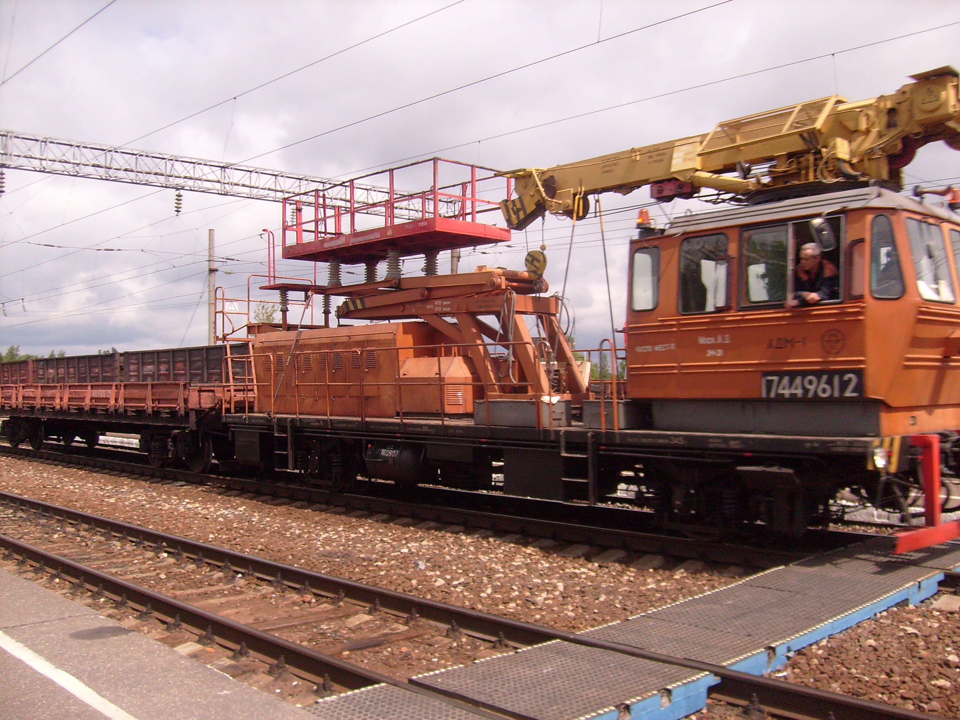 Russian Railways, Rail service vehicle ADM-1